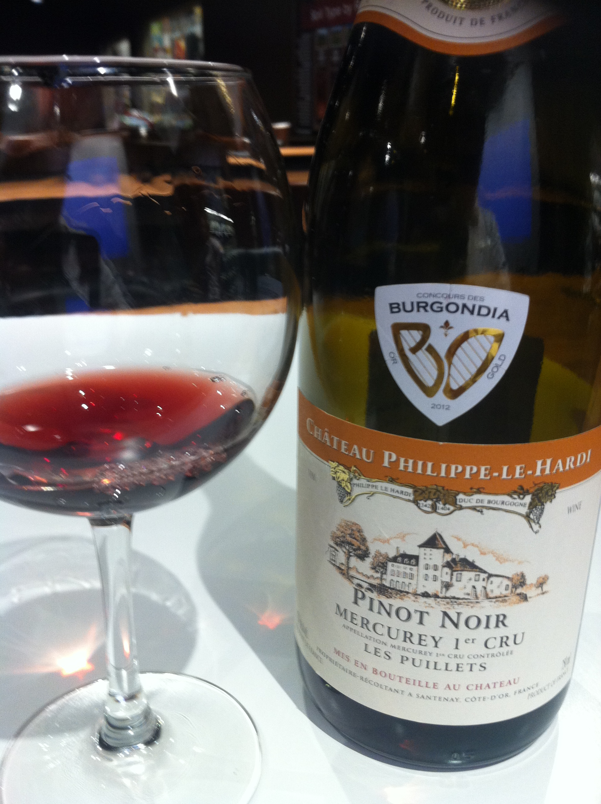 French Pinot noir wine from Mercurey AOC of the Cote Chalonnaise region of Burgundy